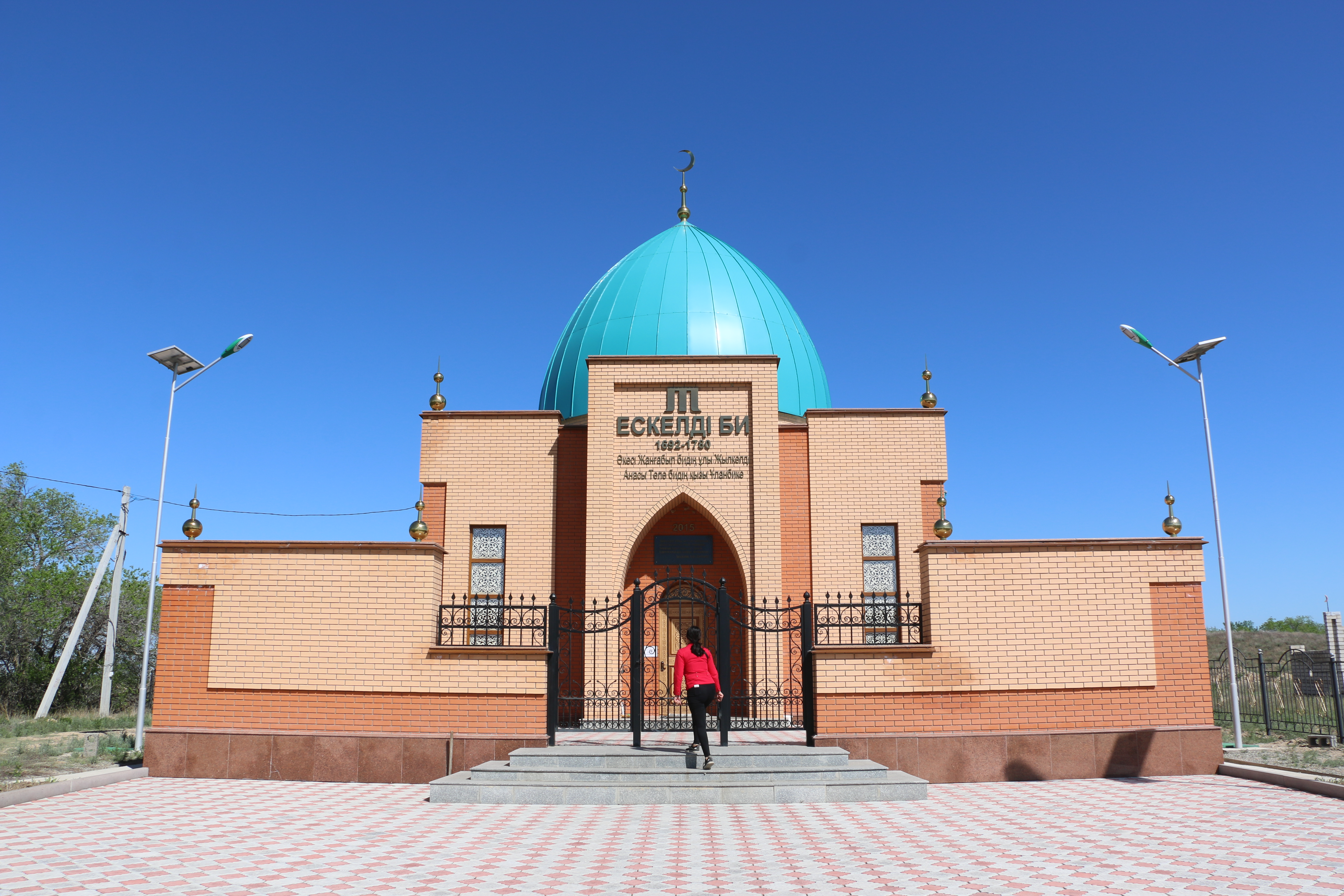 Eskeldi Bi Mausoleum